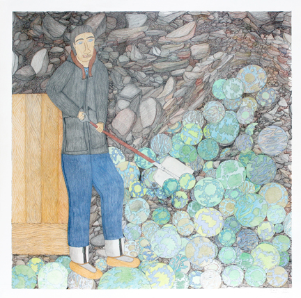 'Shoveling Worlds' by Shuvinai Ashoona was purchased by the Art Gallery of Ontario in 2013.